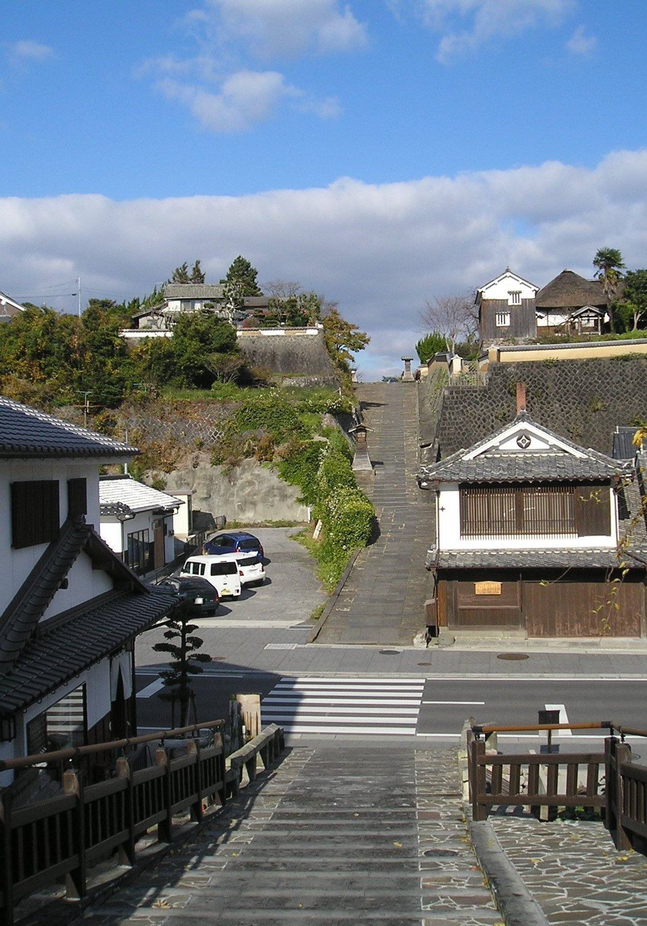 Suya no Saka Slope in Kitsuki Samurai Residence, Oita, Japan